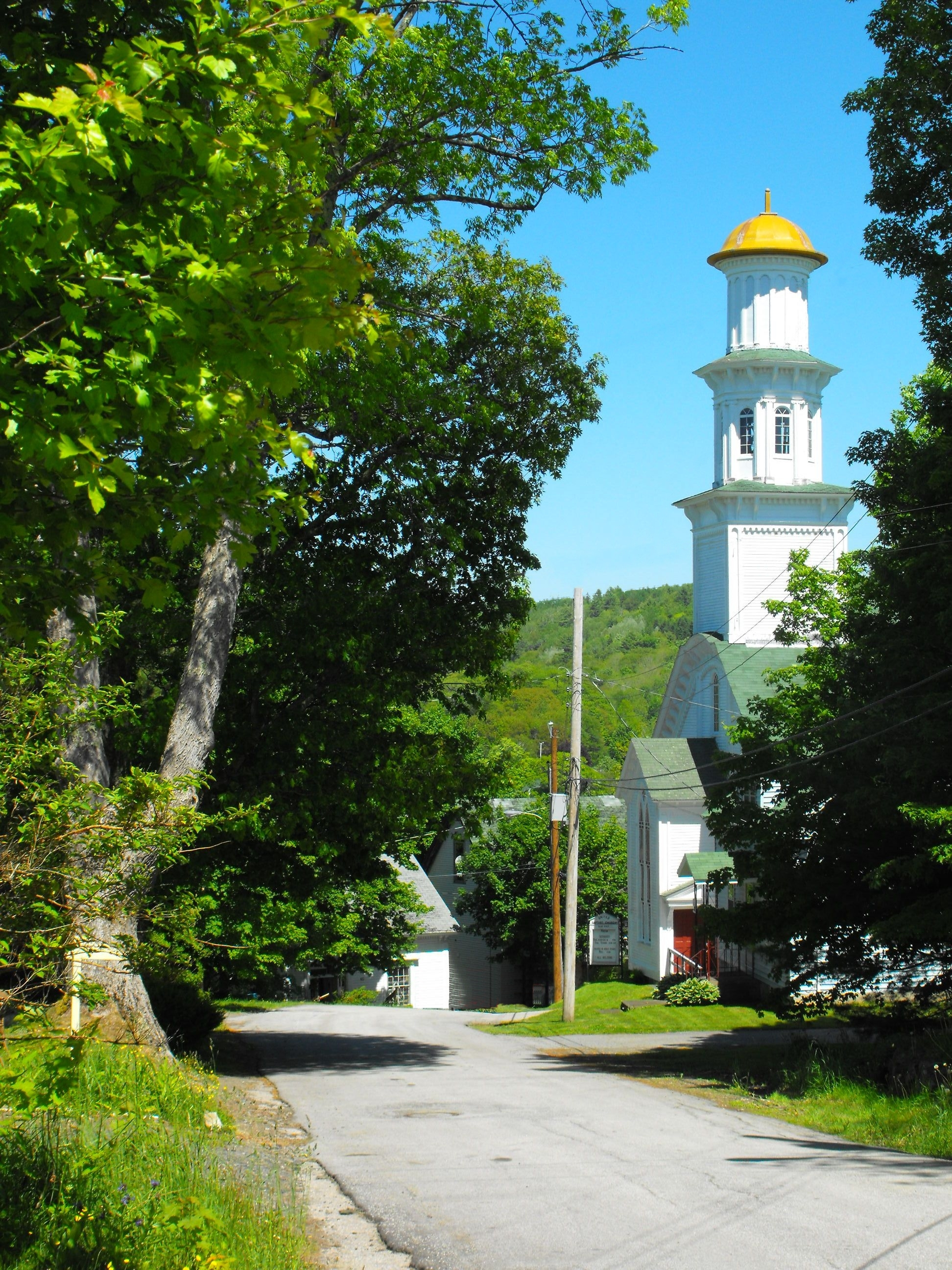 Bear River United Baptist Church, Bear River, Digby County, Nova Scotia. Retouched to remove wires.